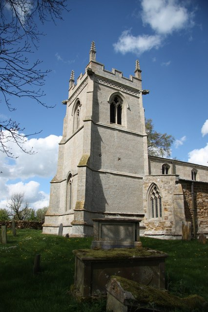 St.Mary's tower Graceful 15th century Perpendicular tower on St.Mary's church, with fin buttresses, quatrefoil lozenged frieze, battlements and pinnacles